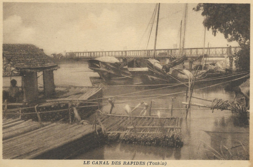 Old postcard showing the Canal des Rapides near Hanoi, Tonkin, French Indochina (Đuống River, Vietnam)